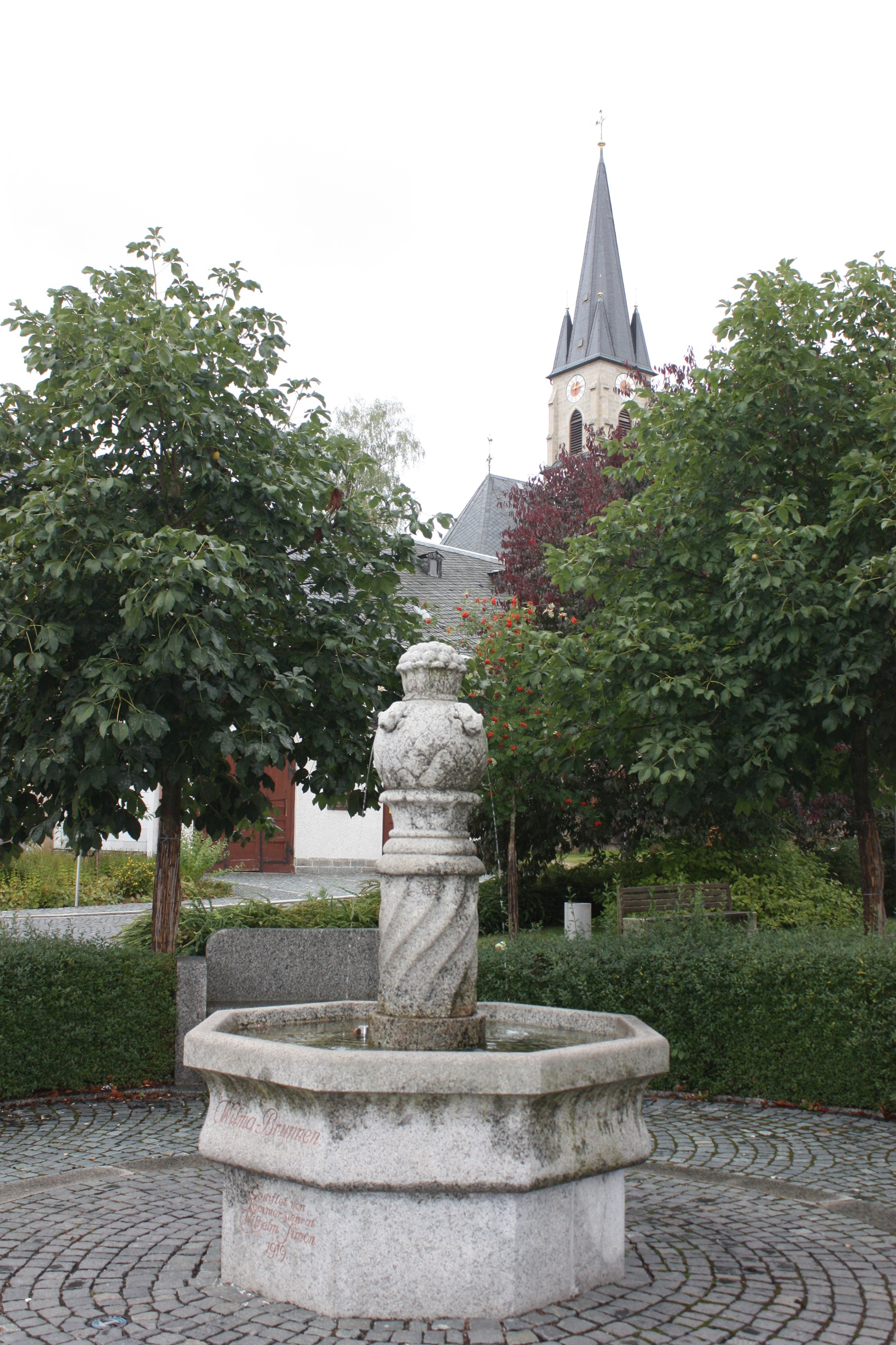 Wunsiedel, fountain in the Wilma park, view to the Twelve Apostles Church